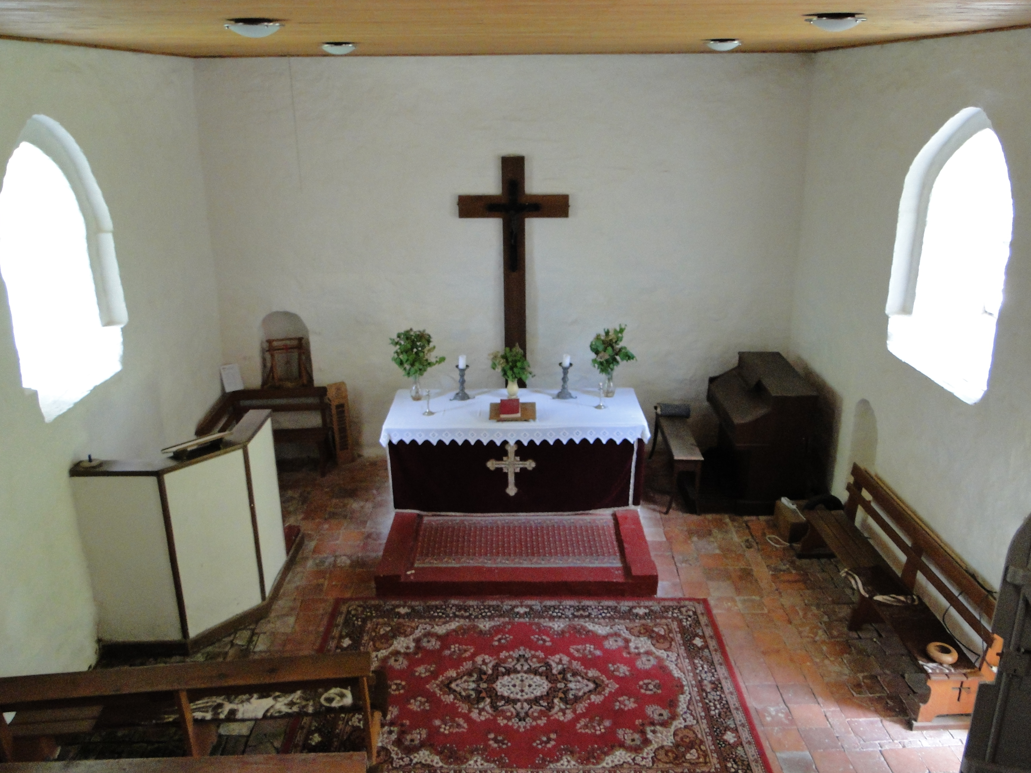 Church in Groß Niendorf, district Ludwigslust-Parchim, Mecklenburg-Vorpommern, Germany